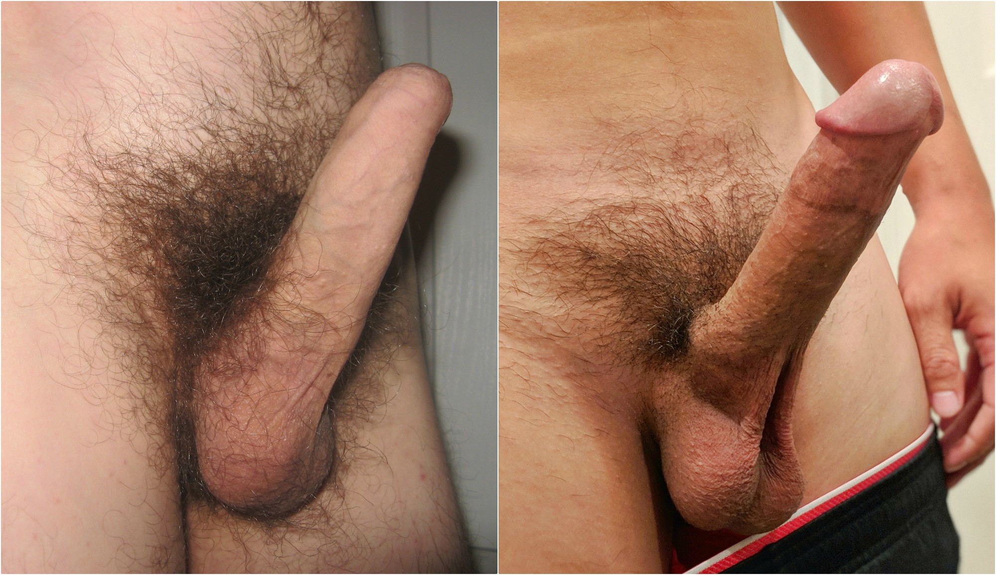 Comparison of two erect human penises, one uncircumcised (left) and one circumcised (right).